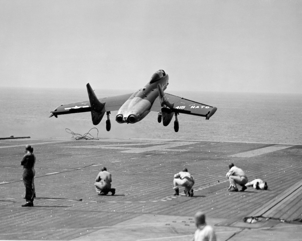 Launch of the first production Vought F7U-1 Cutlass (BuNo 124415) from the aircraft carrier USS Midway (CVB-41) on 25 July 1951. The plane was piloted by Lt.Cmdr. E.L. Feightner. After tests at the NATC Patuxent River the F7U-1 was used for carrier qualifications. It was the only landing of a F7U-1 on a carrier, as the pilot's visibility was so poor that he could not see the flight deck during the landing. The Landing Signal Officer had to give Feightner the signal to cut the engine, but this method almost led to a ramp strike.